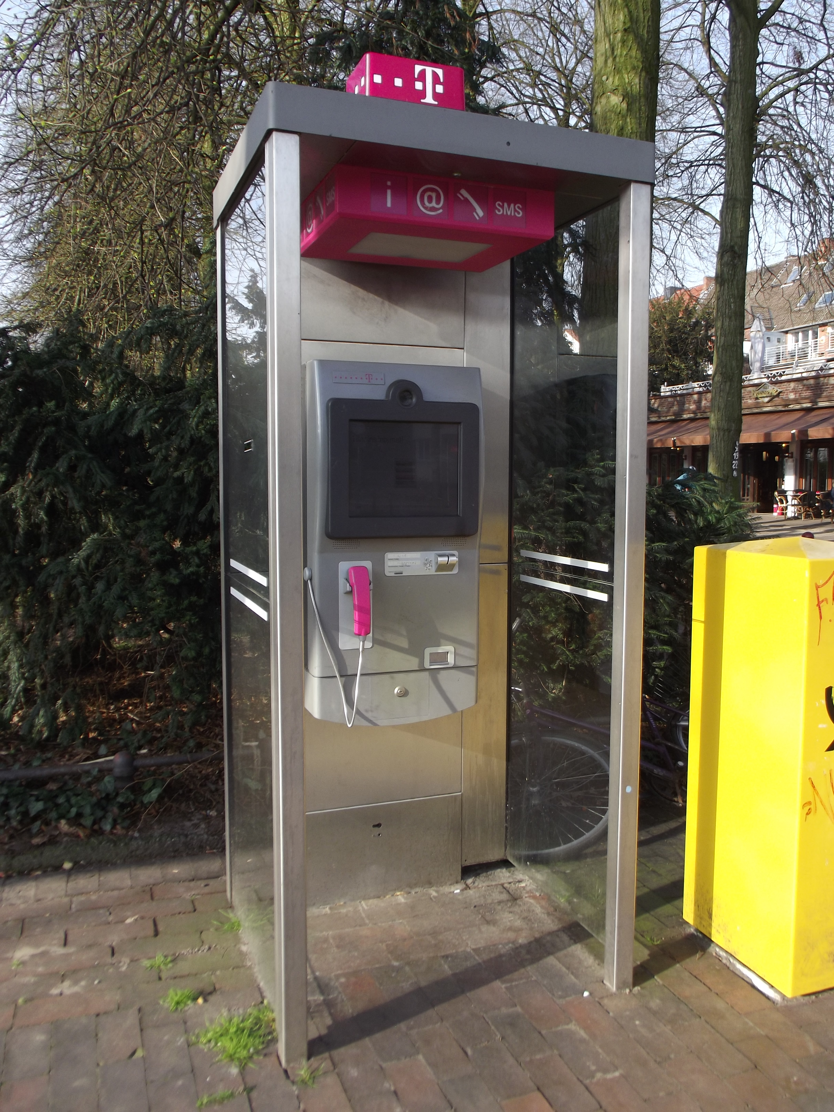 Modern telephone box (Deutsche Telekom, Germany) with public internet access